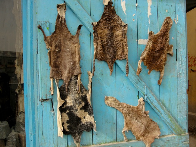 The future Afghan caps - karakul lamb fur-skins of very low quality at a market in Kabul